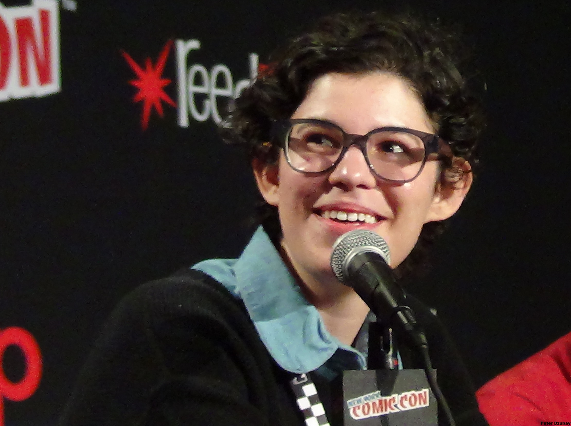 Rebecca Sugar speaking at the Cartoon Network Presents: CN Anythingǃ panel at the 2014 New York Comic Con. Photo by Peter Dzubay